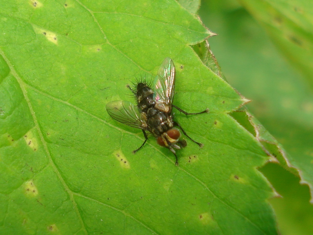 Exorista rustica